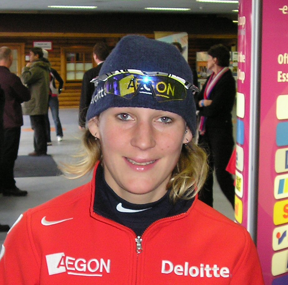 Marieke Wijsman (NED) at a World Cup in Thialf (Heerenveen, The Netherlands)